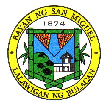 seal of the municipality of San Miguel, Bulacan